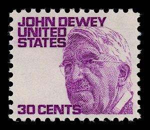 US stamp honoring John Dewey